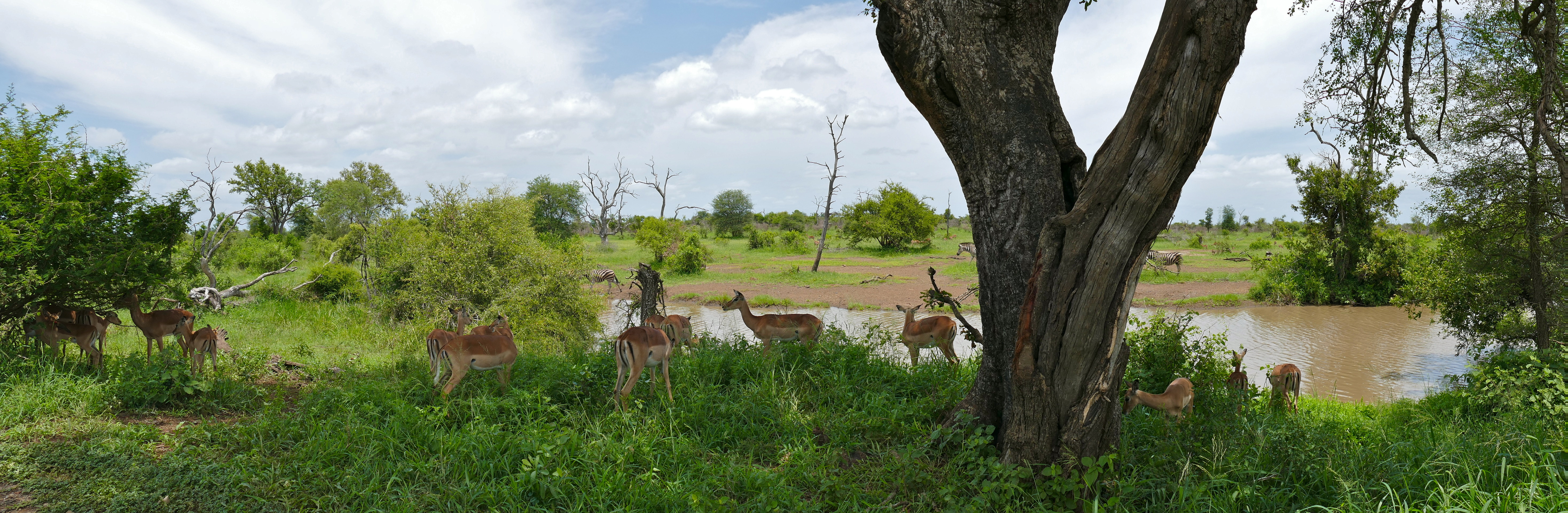 S137 Road South of Lower Sabie, Kruger NP, SOUTH AFRICA